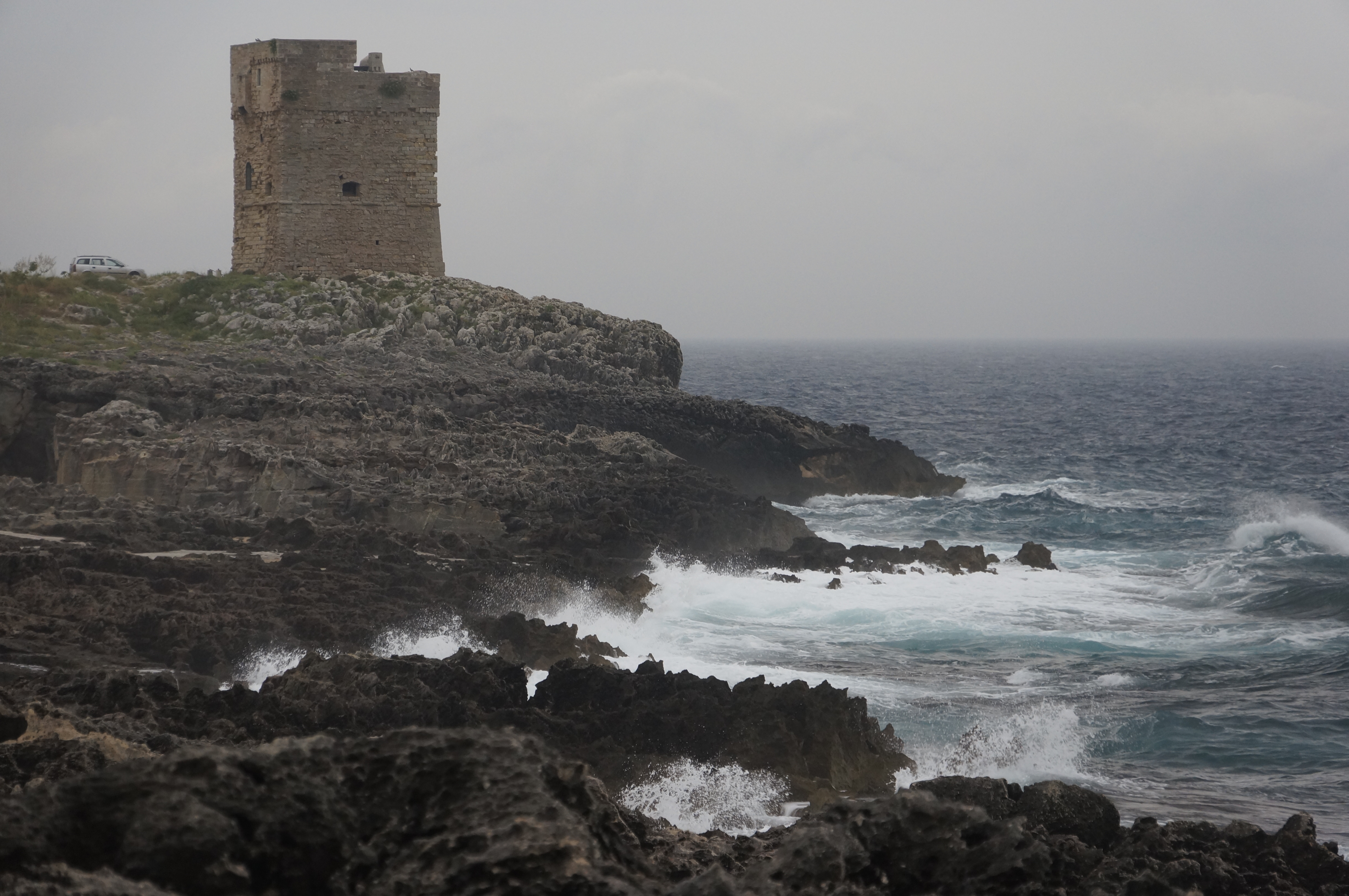 Marina Serra